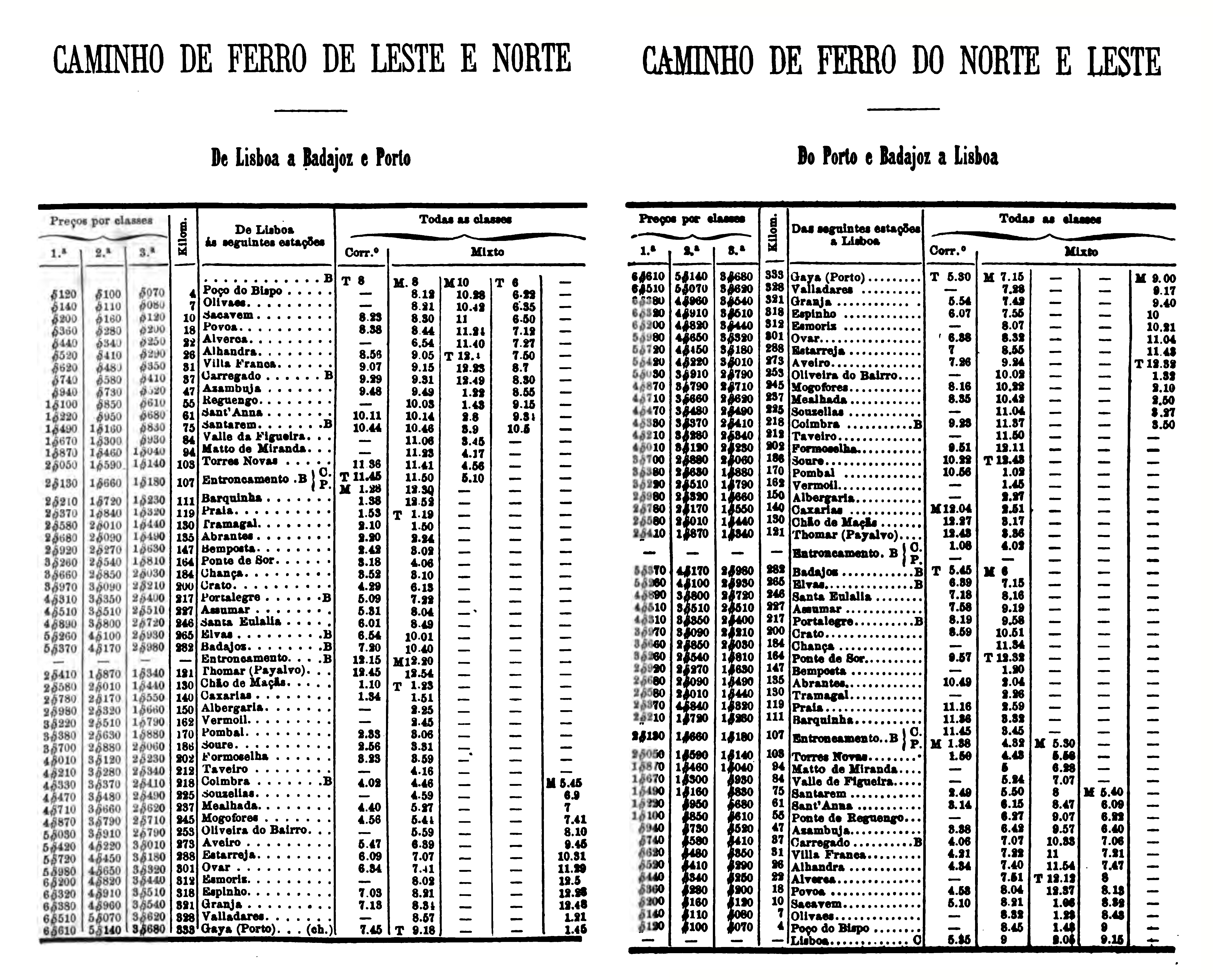 Timetables of the CRCFP - Companhia Real dos Caminhos de Ferro Portugueses (Royal Company of the Portuguese Railways), for the Norte (Northern) and Leste (Eastern) Railways. This image was originally published in the 1876 book "As Praias de Portugal" by author Ramalho Ortigão, scanned by Google from the library of Harvard University, and available in the website.